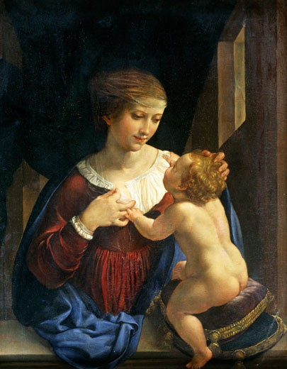 Madonna and Child by Angelo Caroselli, oil on canvas, (1585 - 1652 ) Private Collection -Turin